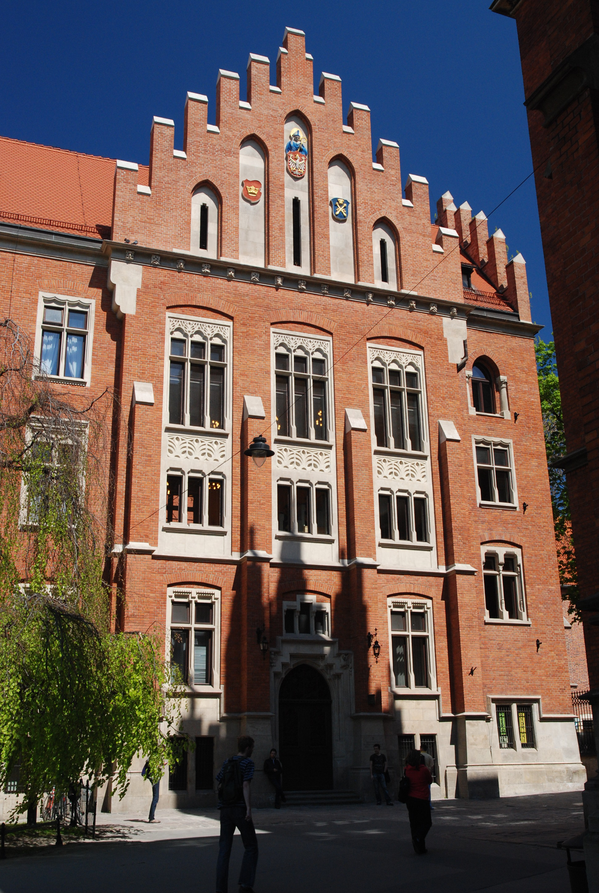 Collegium Witkowskiego (Collegium of Witkowski), building of Jagiellonian University in Krakow, Poland. By Gabriel Niewiadomski, 1908-11